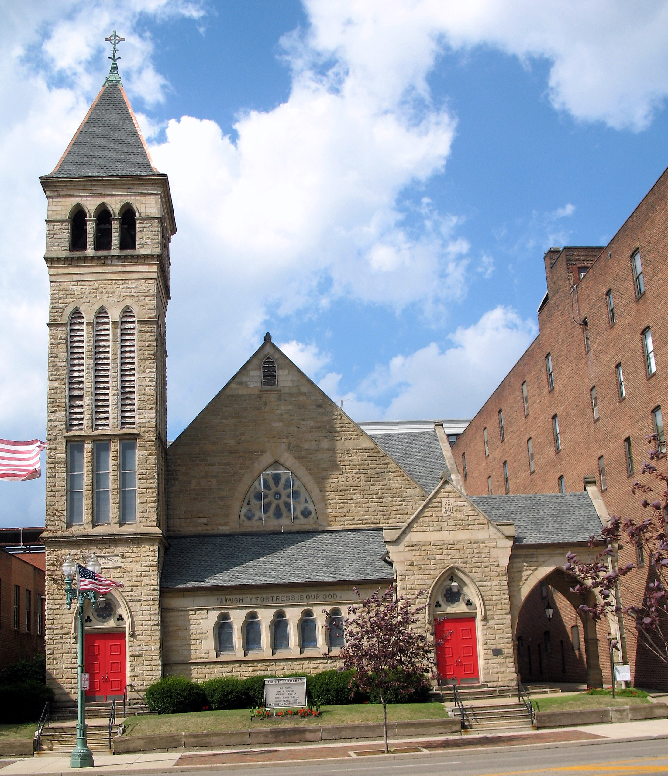 National Register of Historic Places listings in Stark County, Ohio Trinity Lutheran Church, 415 W. Tuscarawas St., Canton, Ohio